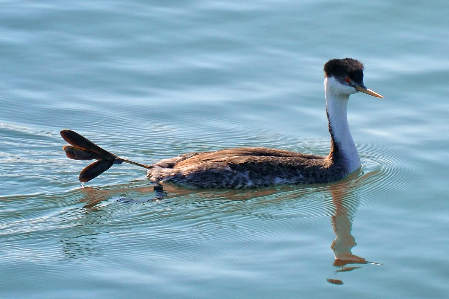 Western Grebe Aechmophorus occidentalis with foot extended, Misson Bay, San Francisco, California.